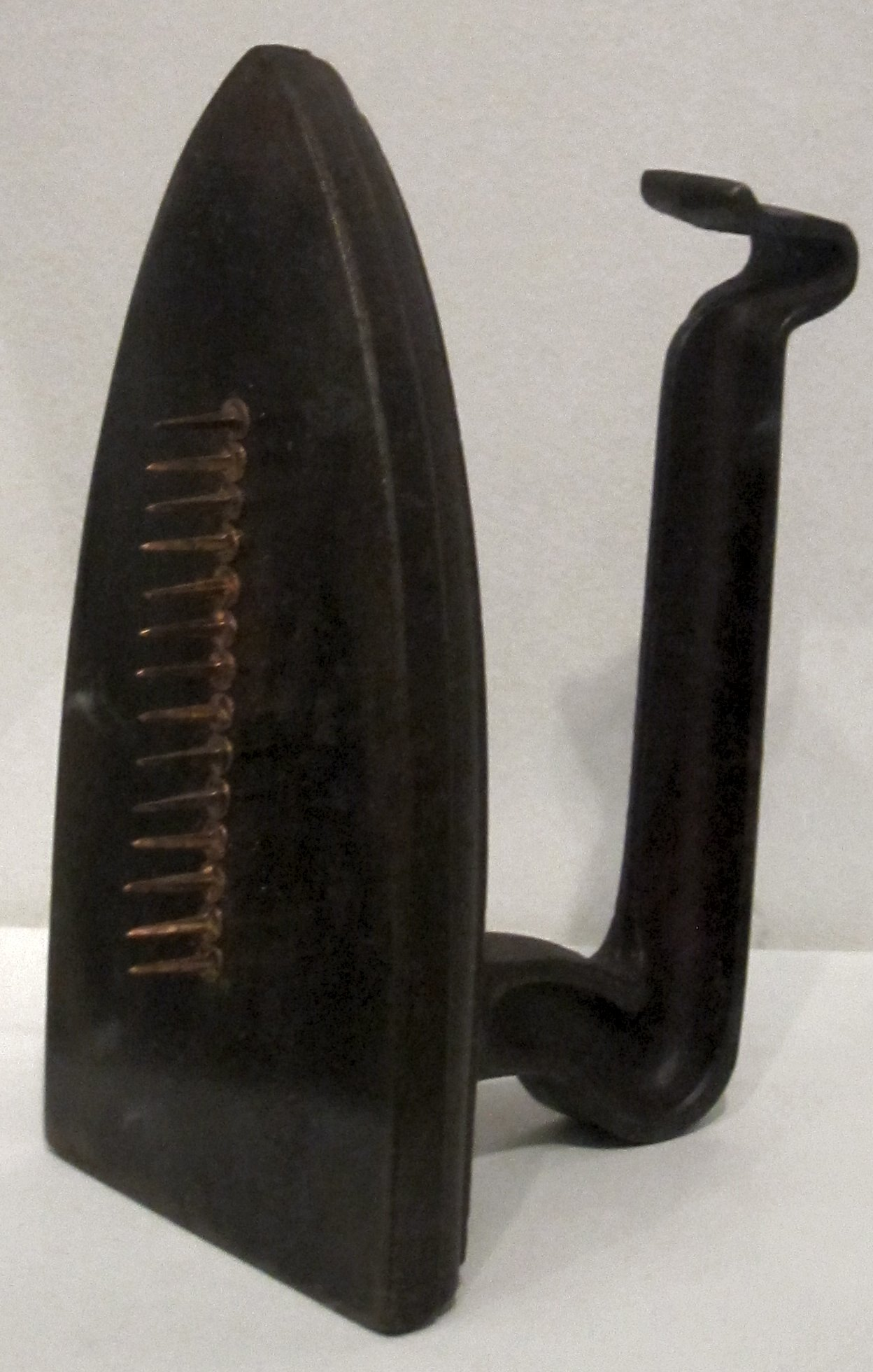 Cadeau sculpture by Man Ray, iron and nails, 1921, edited replica 1972, Tate Modern